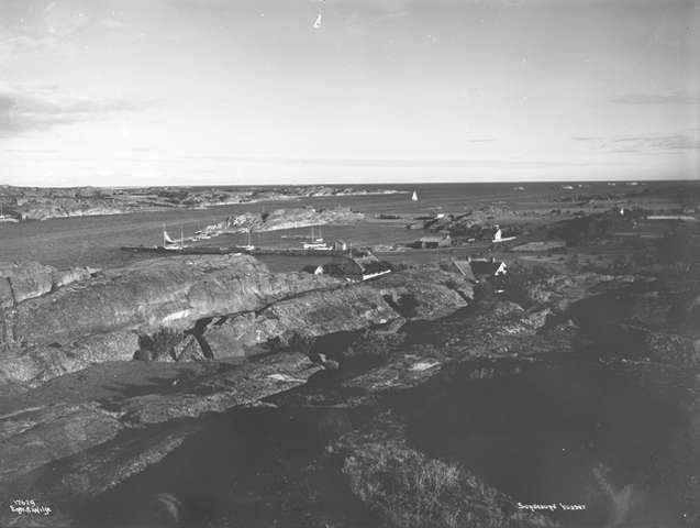 The village of Sandøsund on the island of Hvasser with the Færder islands in the background.